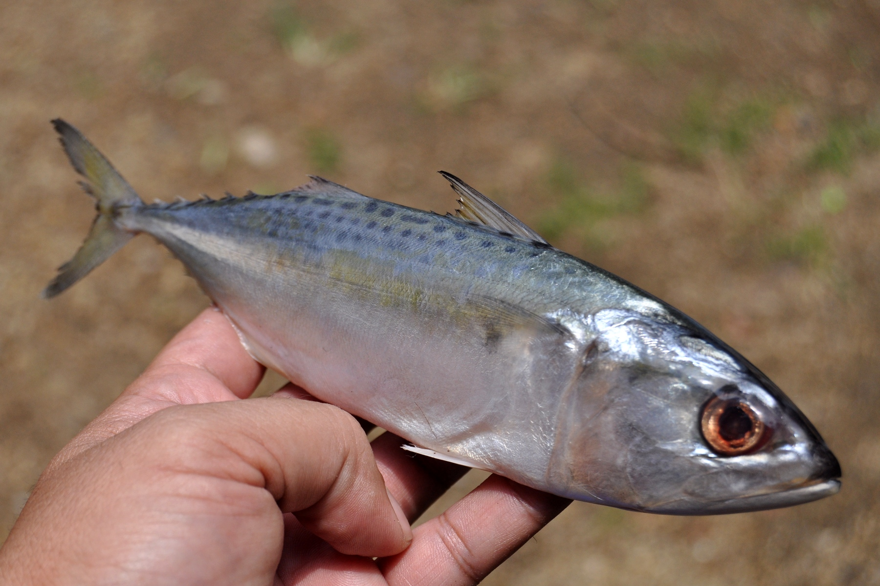 Indian mackerel Rastrelliger kanagurta from Jakarta, Indonesia. FL 185 mm. Right side.